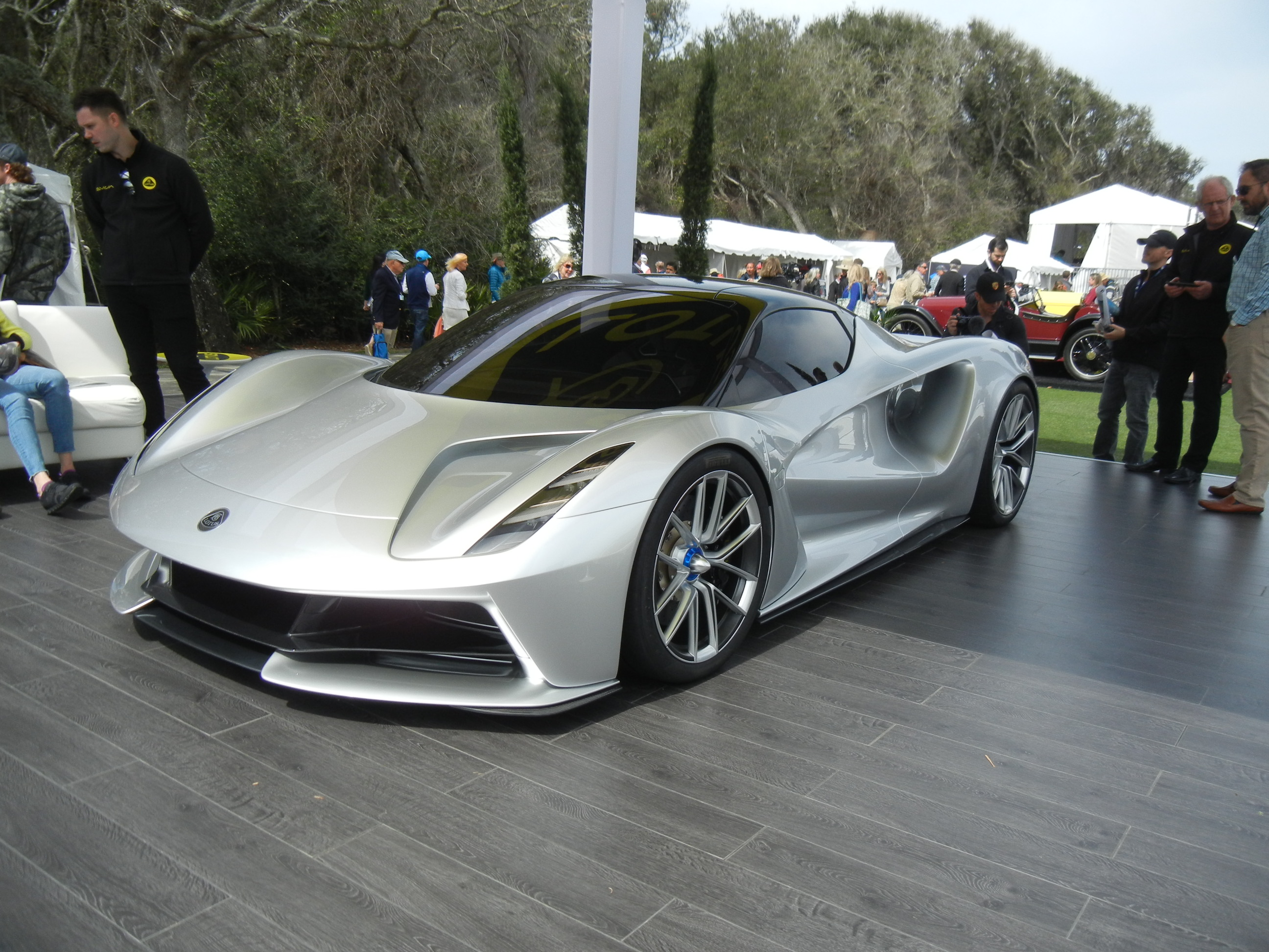 lotus evija front